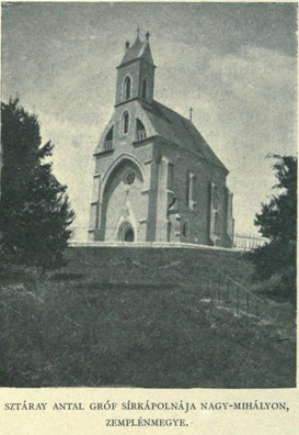 Tomb of Sztáray Antal